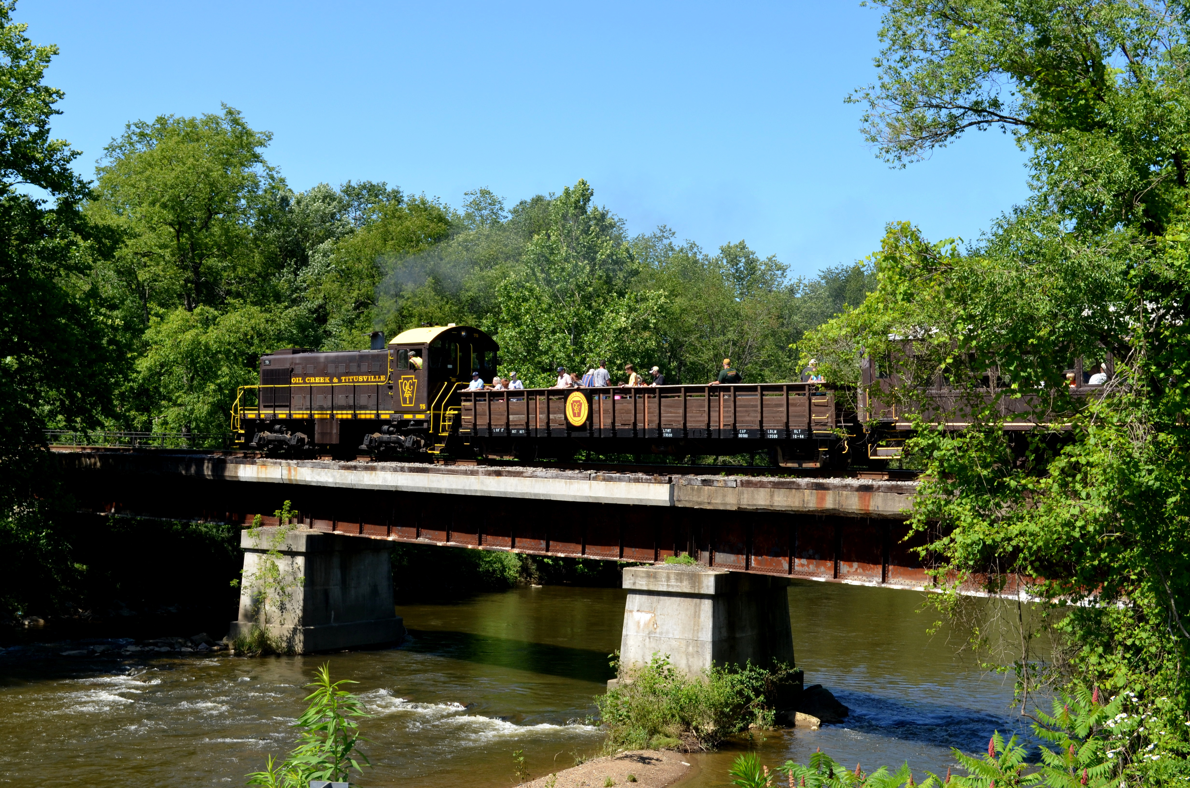 Oil Creek and Titusville train crossing Oil Creek near Titusville, Pennsylvania.